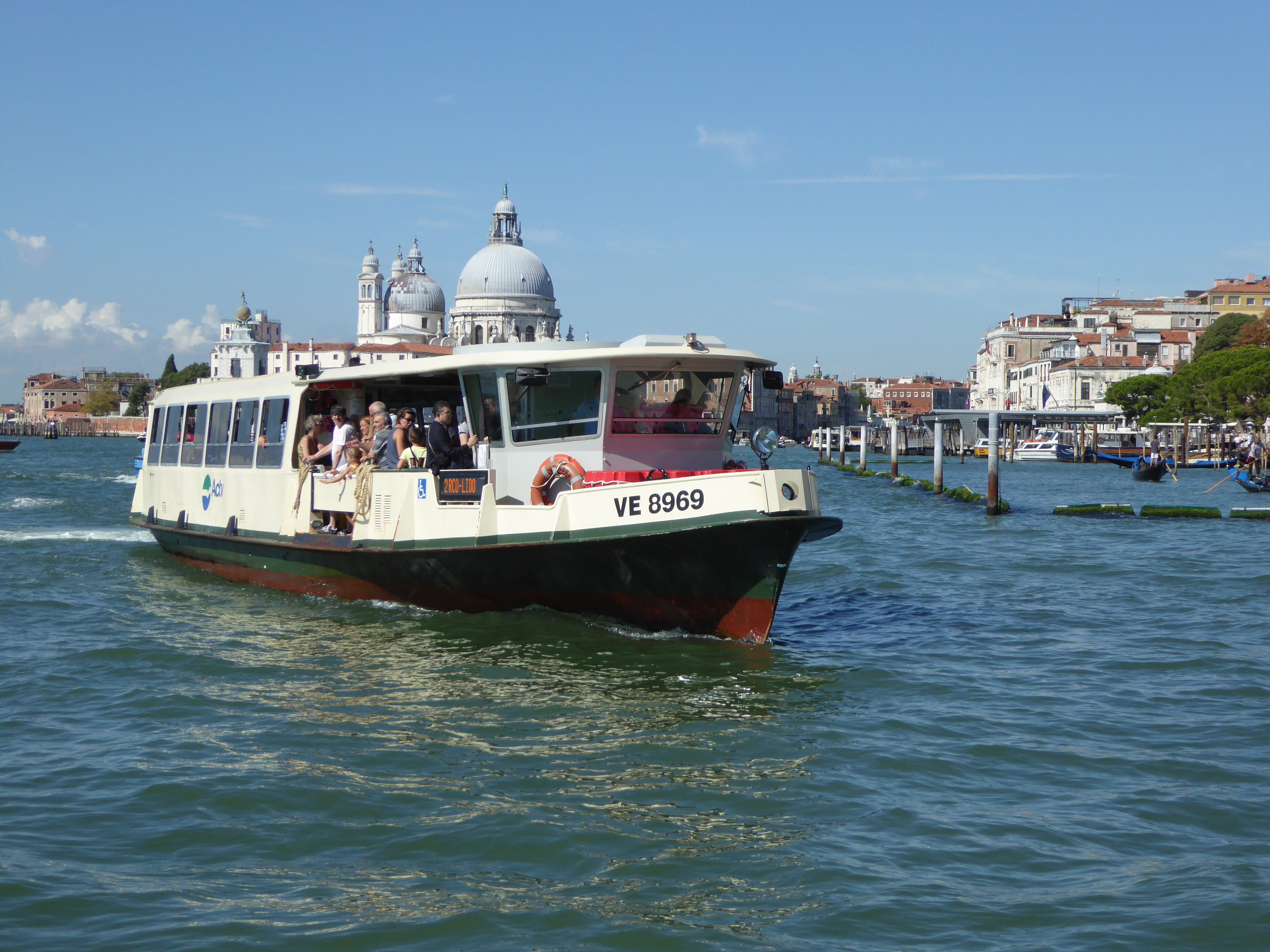 Vaporetto serie 100 - Vaporetto